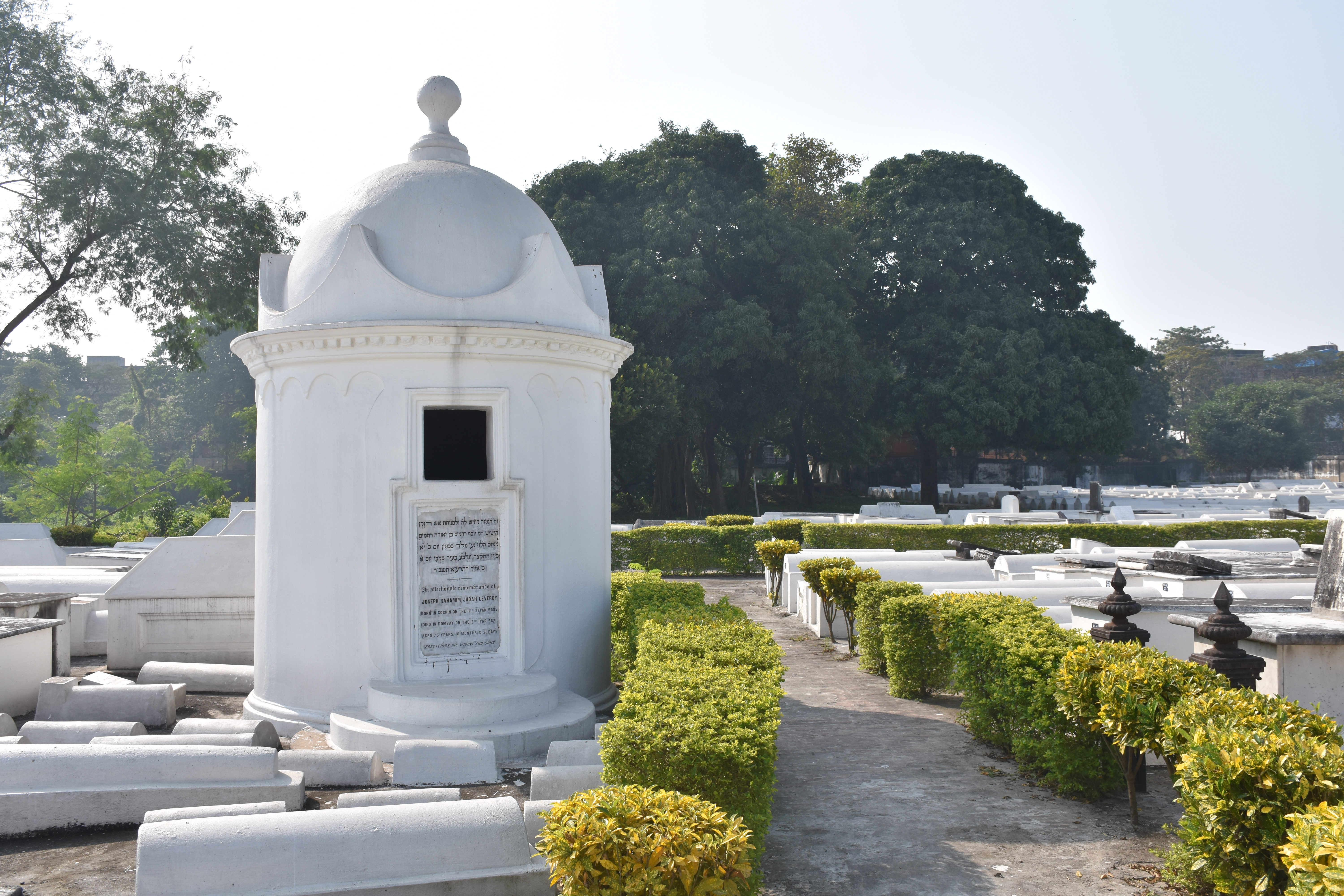 Donation Pit at Jewish Cemetery, Kolkata